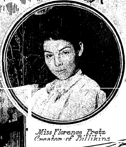 Florence Pretz